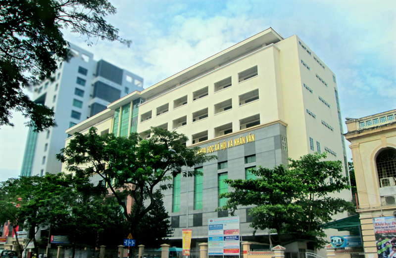 Toà nhà trường Đại học Khoa học Xã hội và Nhân Văn Thành phố Hồ Chí Minh Việt Nam